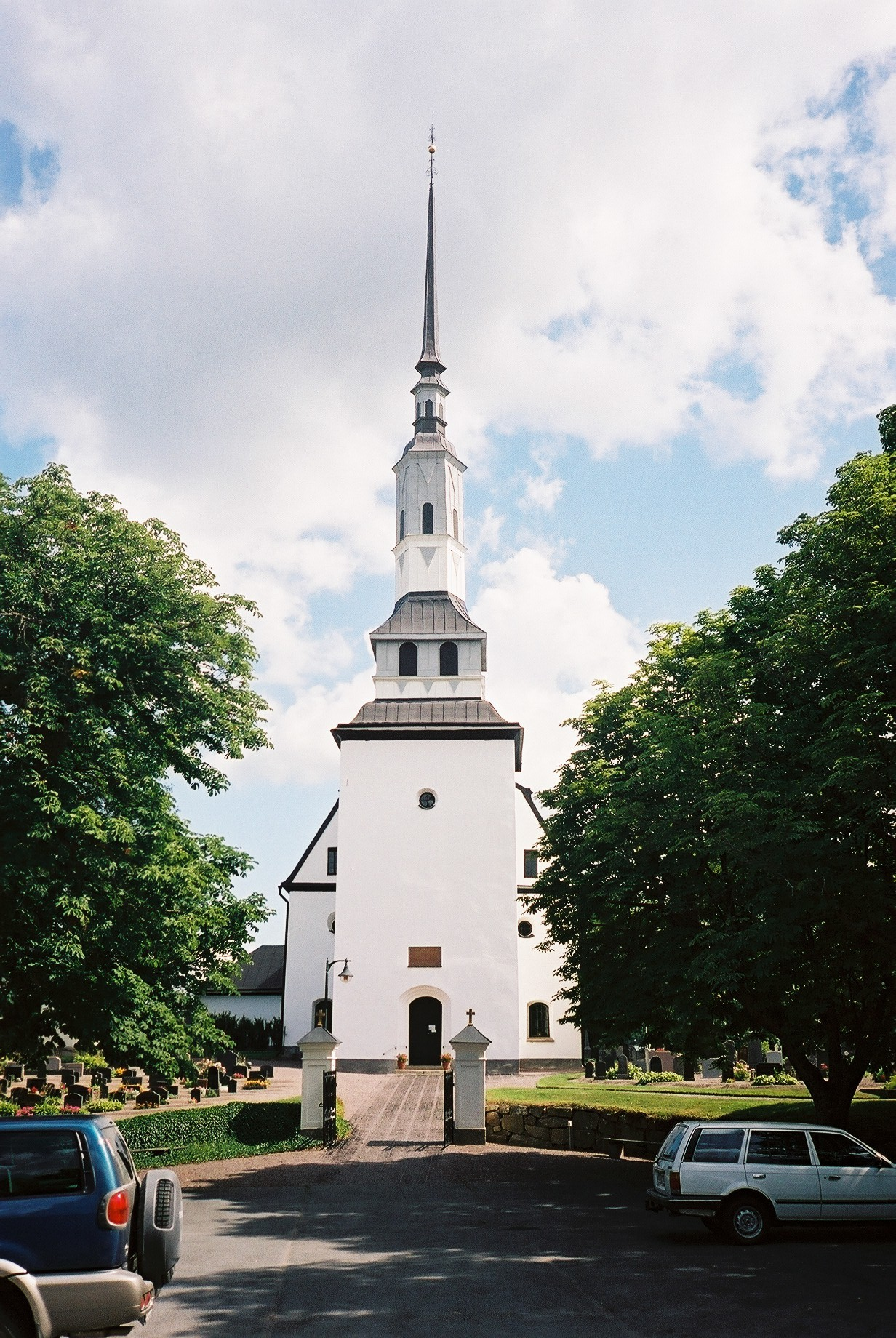 The church in Horn (Kinda kommun) in Östergötland, Sweden.